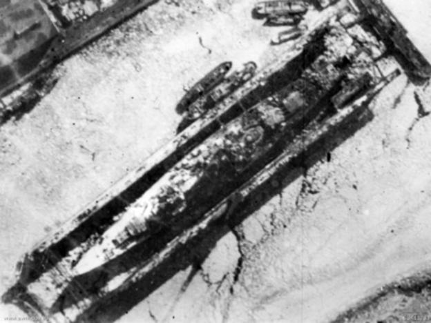 The German battleship Gneisenau in a floating dry dock at Kiel, Germany, after her passage through the Channel from Brest. She was bombed and torpedoed at Brest, France, later mined and work was in progress on her and already a good deal of the deck plating had been removed from the bows. Note the snow and ice. On the night of 26/27 February 1942, the RAF bombed the battleship. A bomb hit the powder magazine of turret "A". 112 sailors died and Gneisenau was decommissioned for the rest or the war.